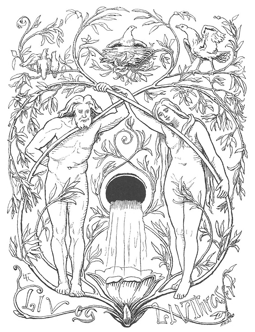 A depiction of Líf and Lífþrasir (1895) by Lorenz Frølich. Líf and Lífþrasir, the only surviving woman and man (respectively) of Ragnarök, stand side by side. Water falls between them, while an eagle nests above it, and greenery intertwines with the entire composition.